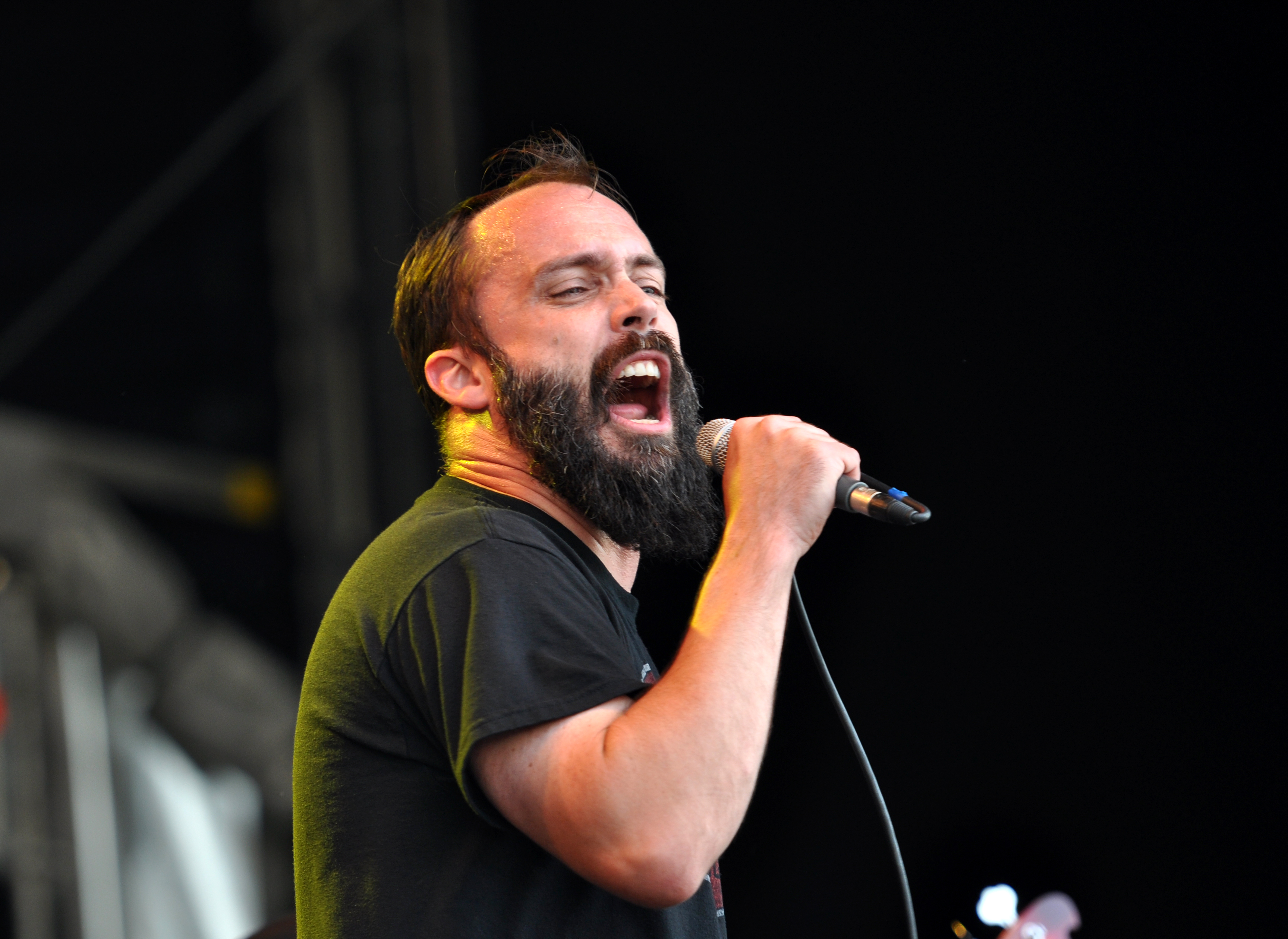 US stoner rock band Clutch at Rock am Ring 2013